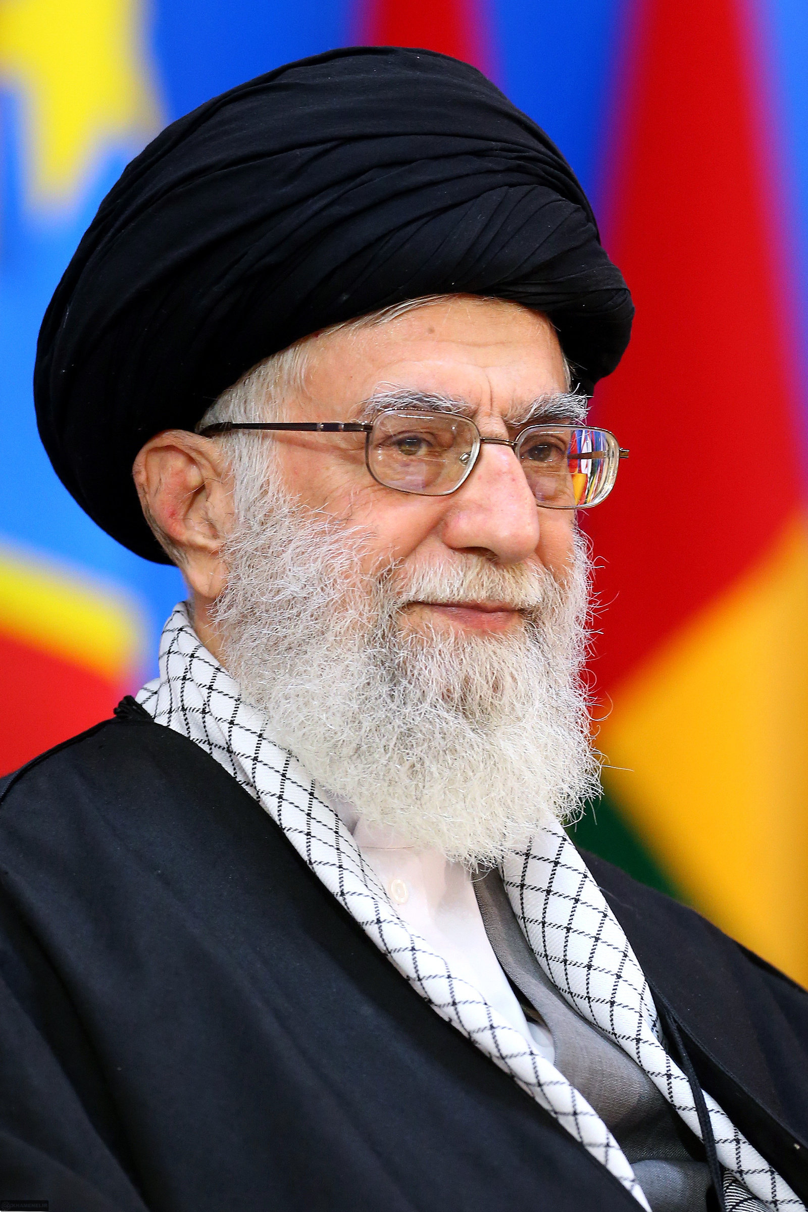 Sixth International Conference in Support of the Palestinian Intifada, Tehran